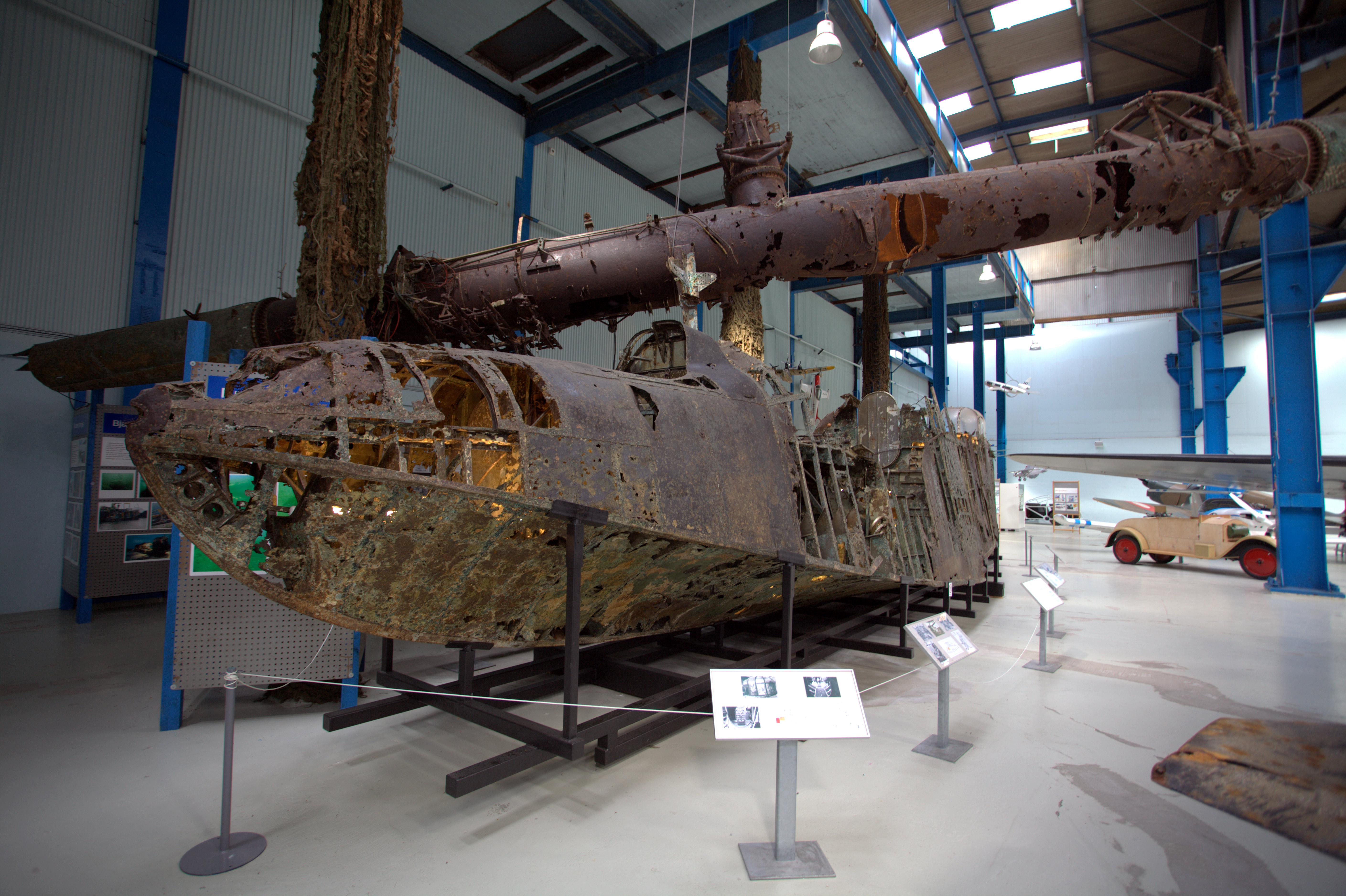 The wreck of a Blohm & Voss BV 138 at display at the National Museum of Science and Technology (Danmarks Tekniske Museum) in Elsinore, Denmark. The wing spar is poised over the aircraft in the same position as it was, when the wreck was discovered in The Sound, off of Copenhagen.